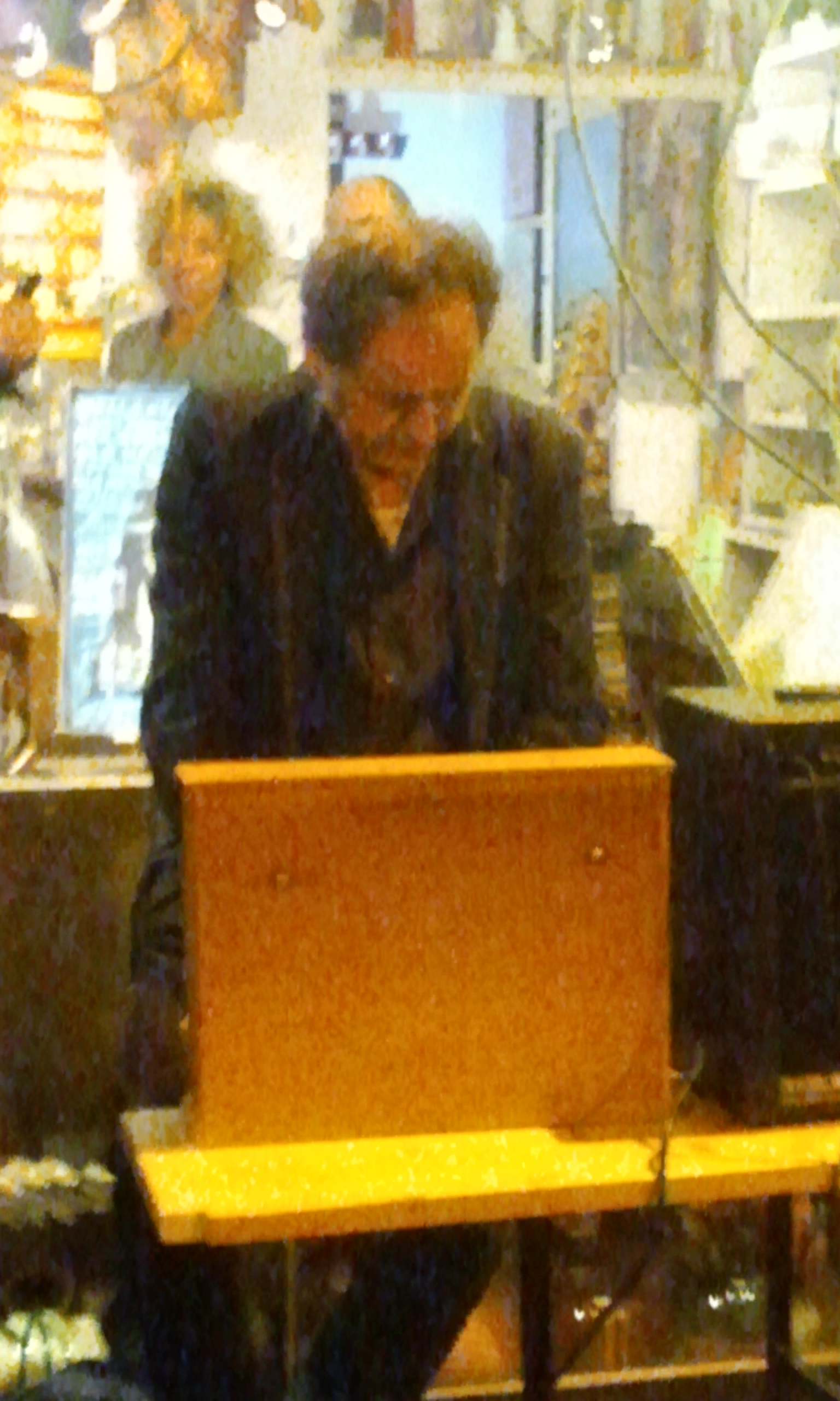 Pascal Comelade in Ceret in 2012